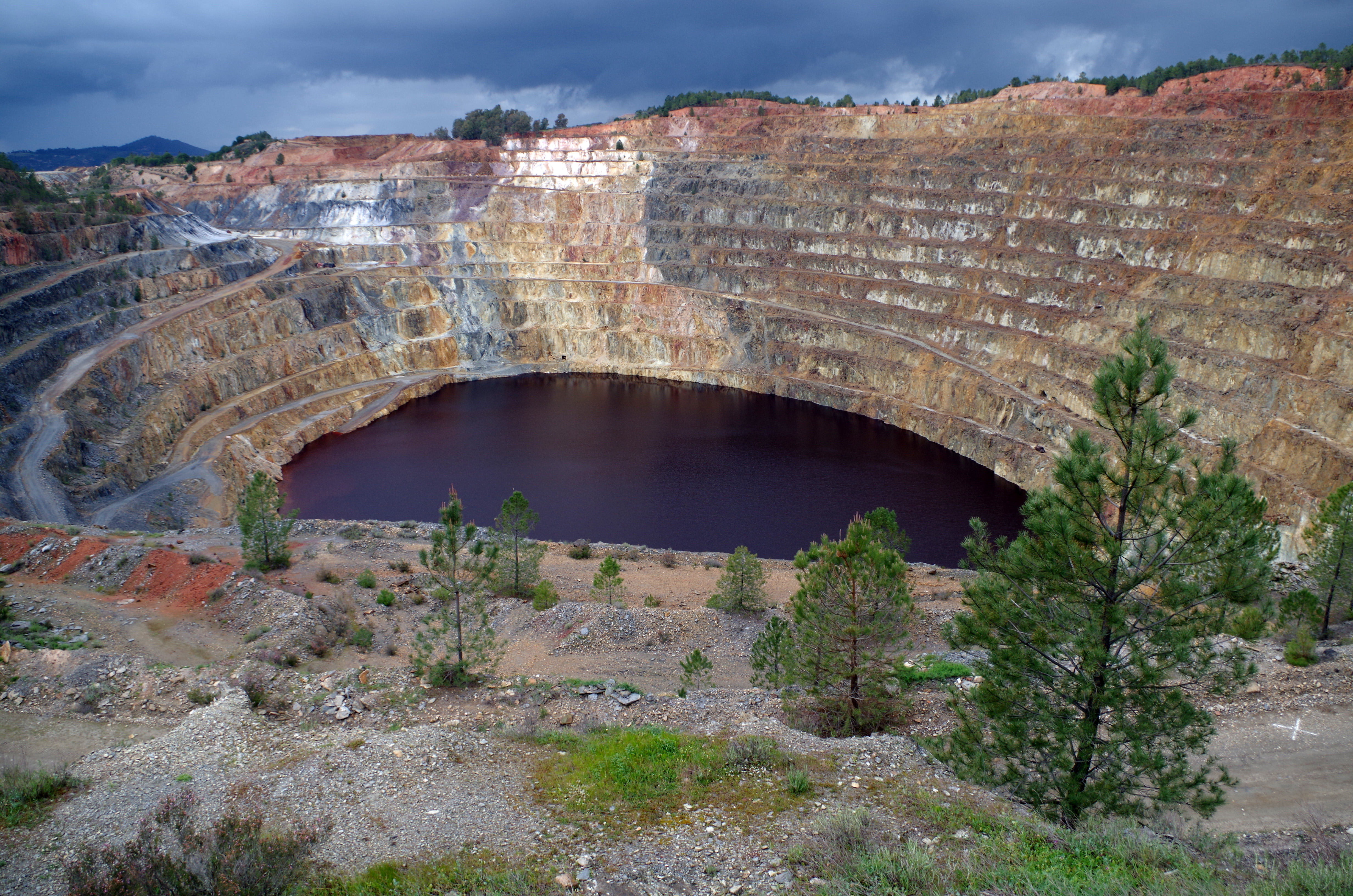 "Corta Atalaya" in Minas de Riotinto. (Huelva, Spain)